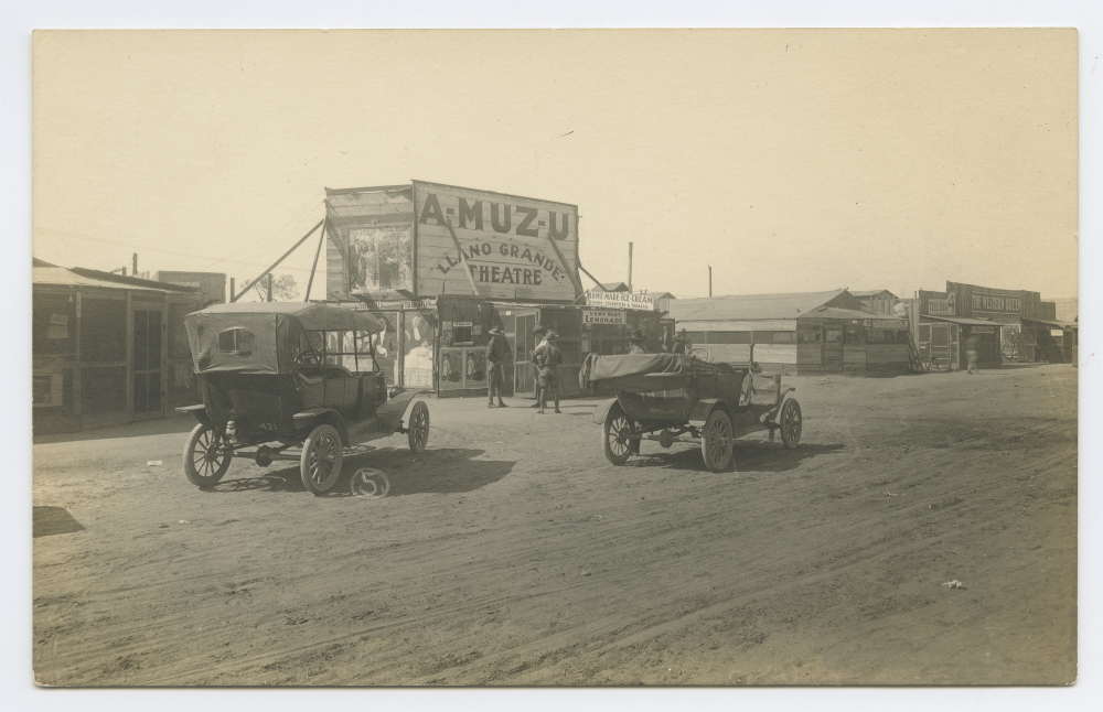 Title: [A-MUZ-U Llano Grande Theatre] Creator: Unknown Date: ca. 1916 Part Of: George W. Cook Dallas-Texas Image Collection Place: Llano Grande, Hidalgo County, Texas Physical Description: 1 photographic print (postcard): gelatin silver; 9 x 14 cm File: a2014_0020_3_3_d_0207_r_llanogrande.jpg Rights: Please cite DeGolyer Library, Southern Methodist University when using this file. A high-resolution version of this file may be obtained for a fee. For details see the web page. For other information, . For more information and to view the image in high resolution, see: View the George W. Cook Dallas/Texas Image Collection